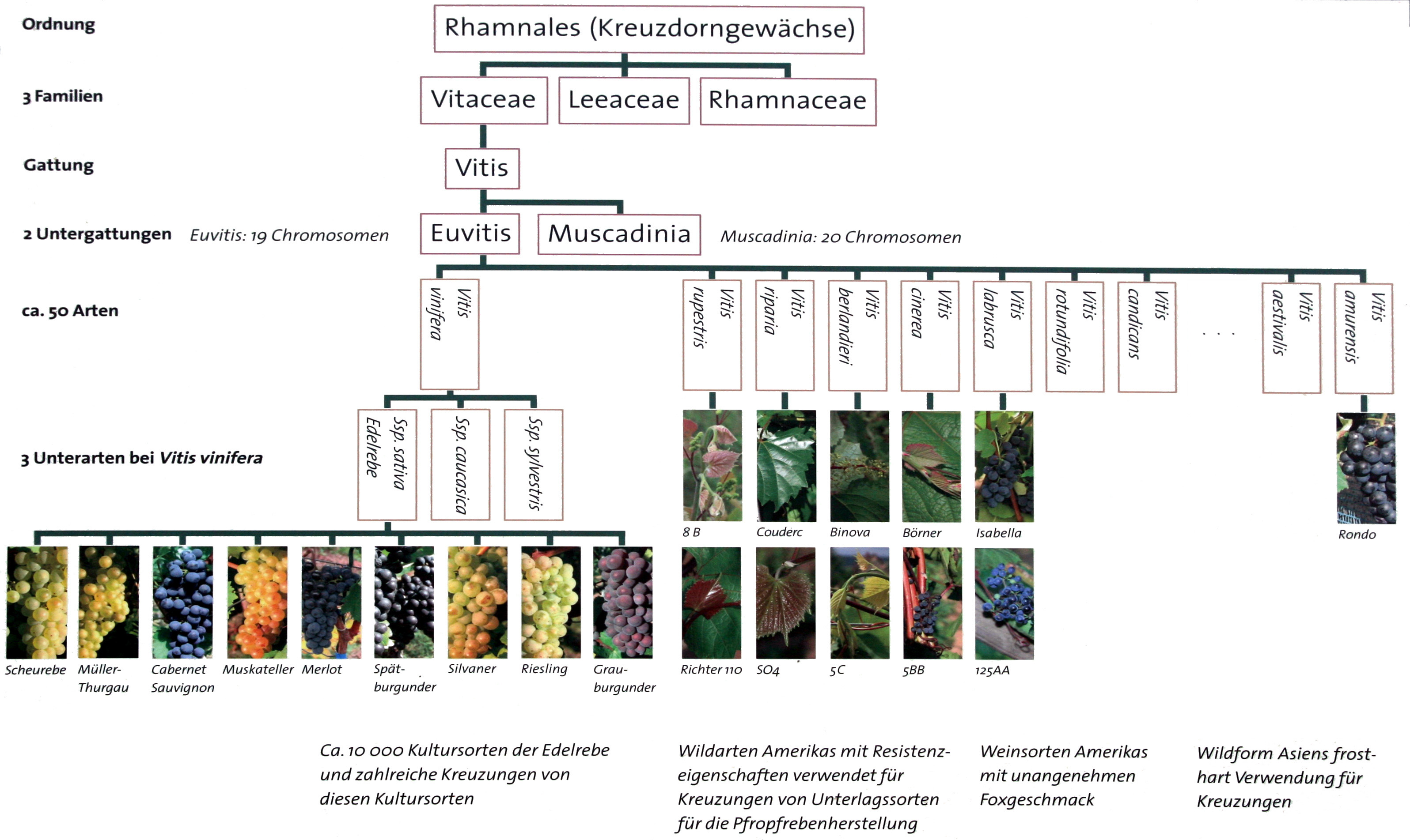 Ampelography diagram of Vitis species — grapevines. On lower left, Vitis vinifera varieties (wine grape types).